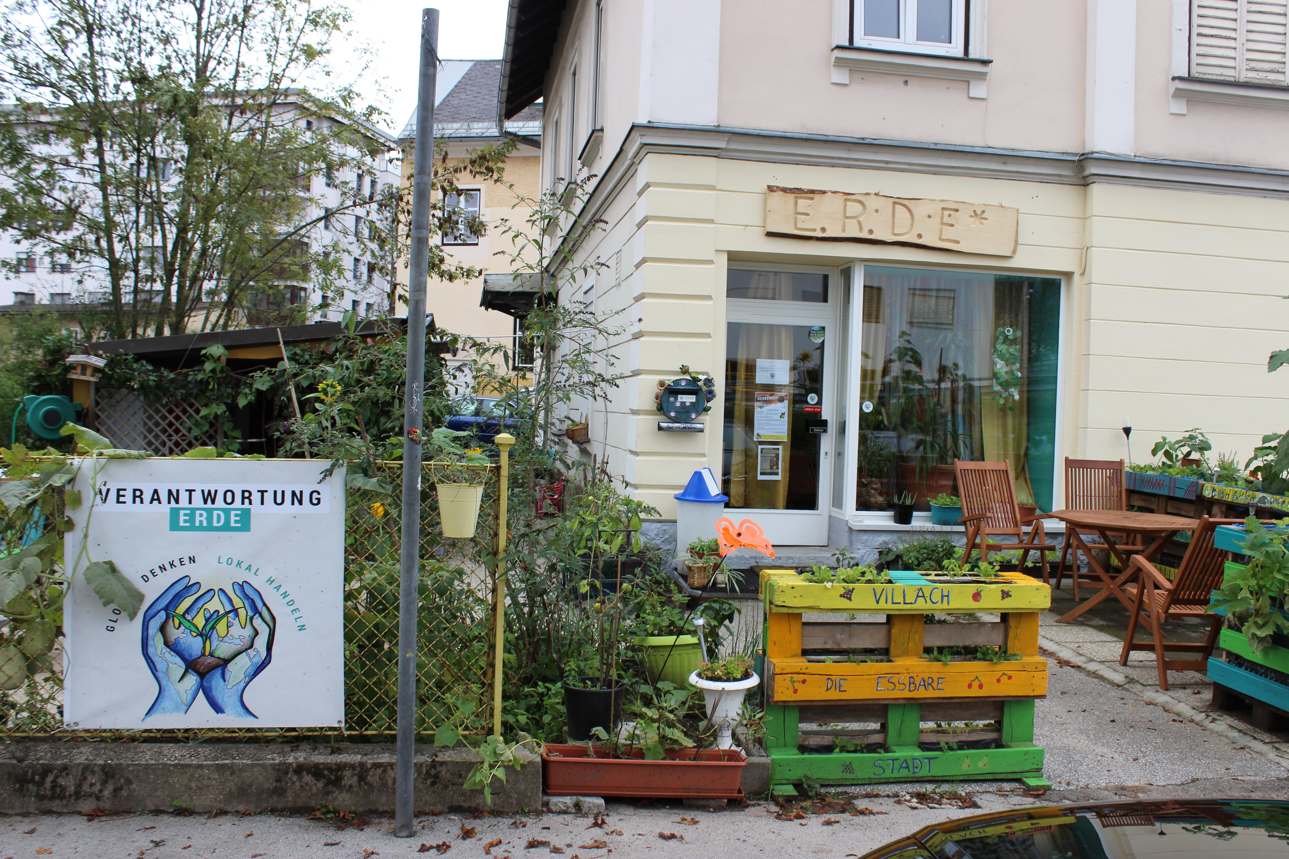 This picture shows the political office of the movement called "Verantwortung Erde" and the beginning of the "eatable city Villach".